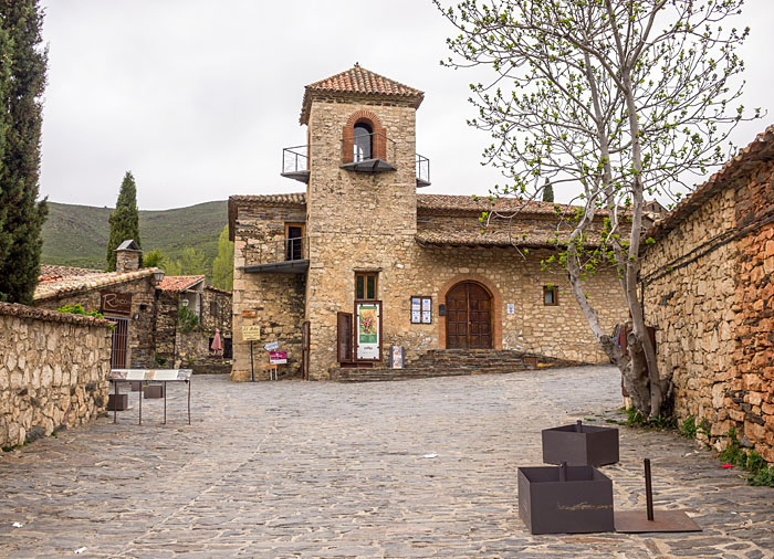 Iglesia de San José. Patones de Arriba.